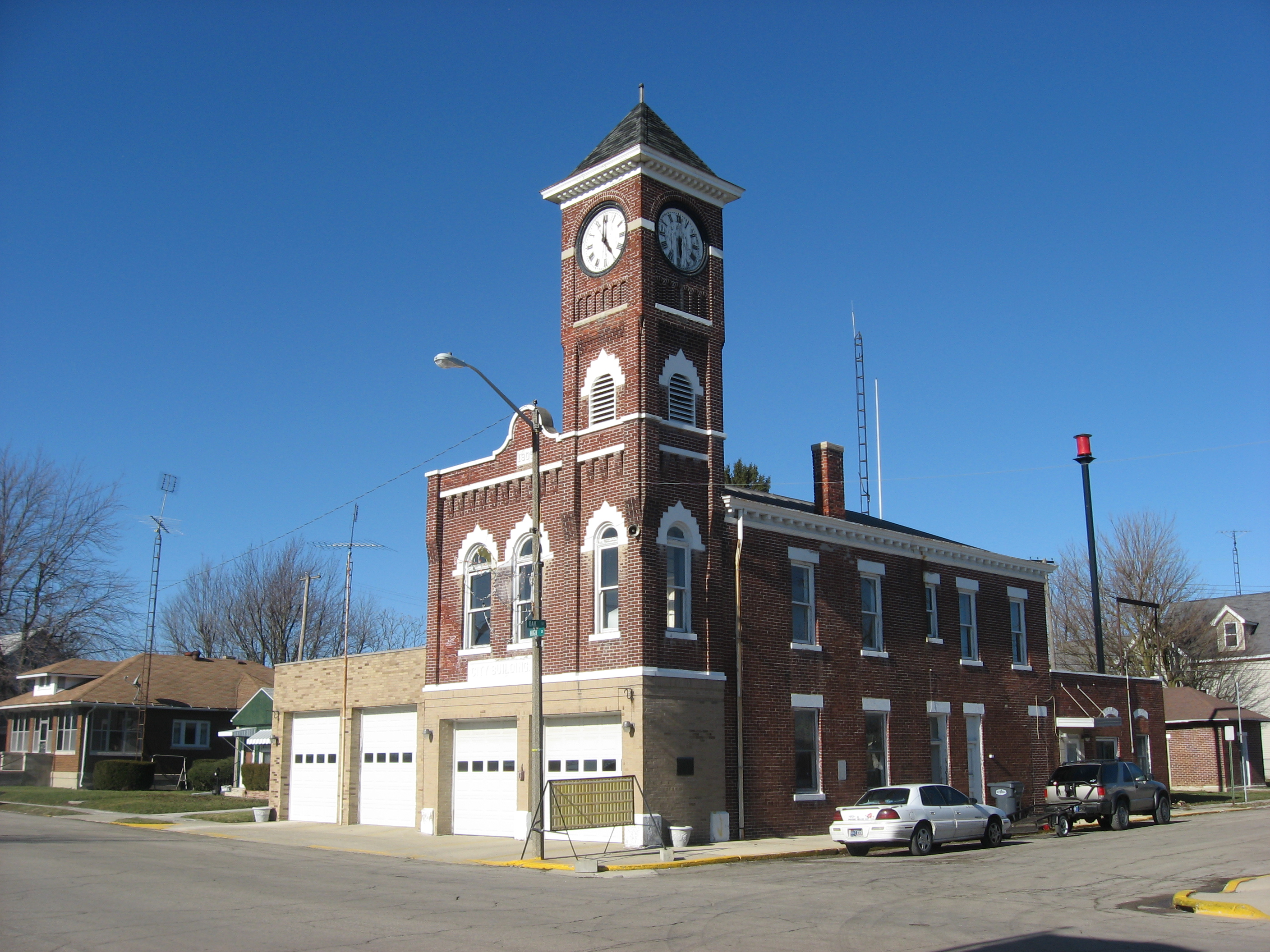 Front and eastern side of the Redkey Town Hall, located at 200 W. High Street in downtown Redkey, Indiana, United States. Built in 1905, it is part of the Redkey Historic District, a historic district that is listed on the National Register of Historic Places.